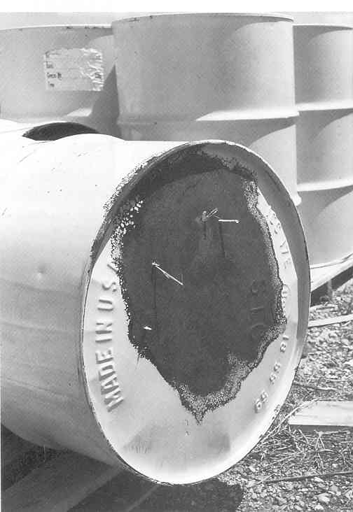 Waste storage barrel, tipped on its side showing corrosion.